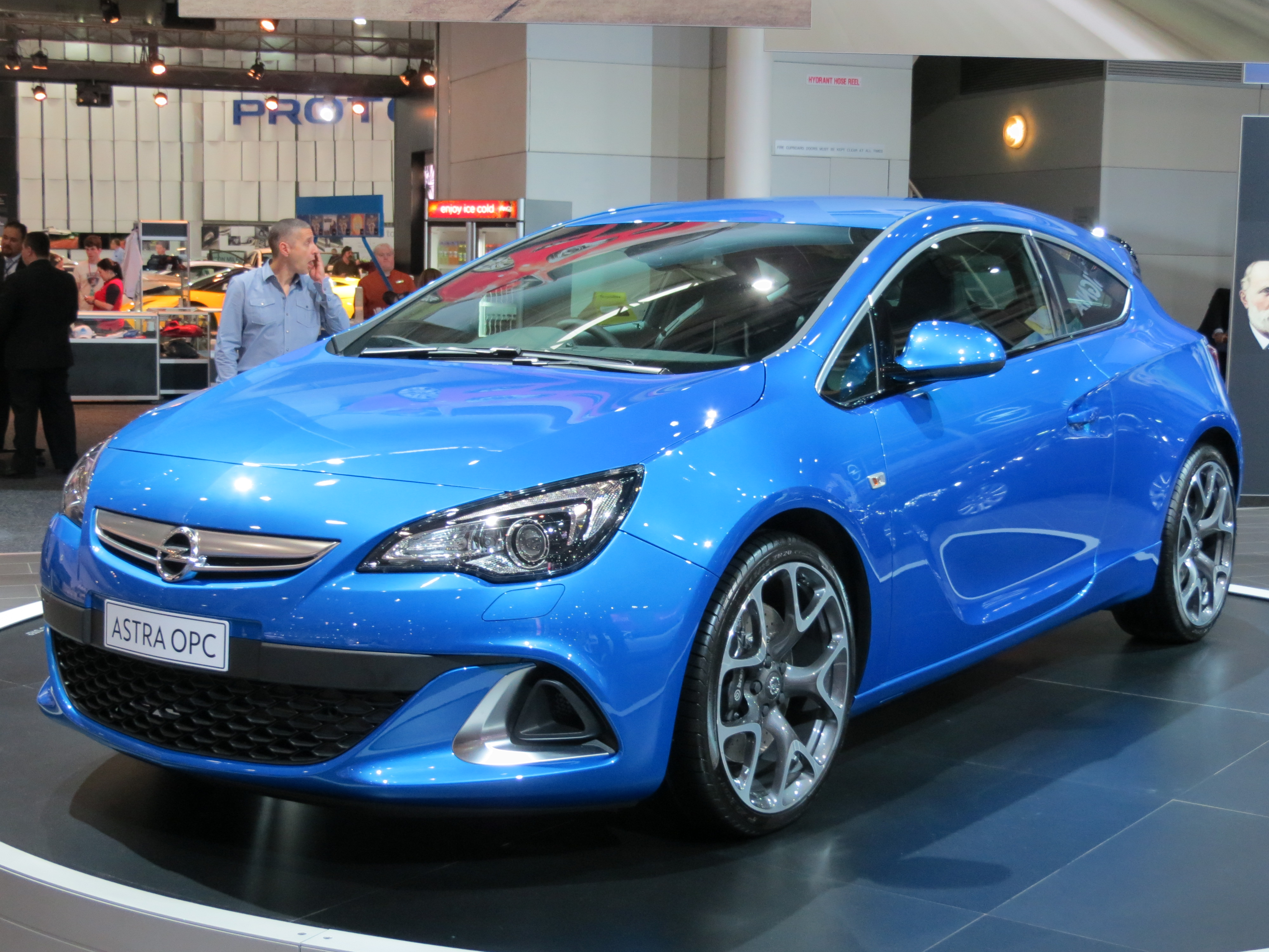 2012 Opel Astra (AS) OPC 3-door hatchback. Photographed at the 2012 Australian International Motor Show, Sydney, New South Wales, Australia.